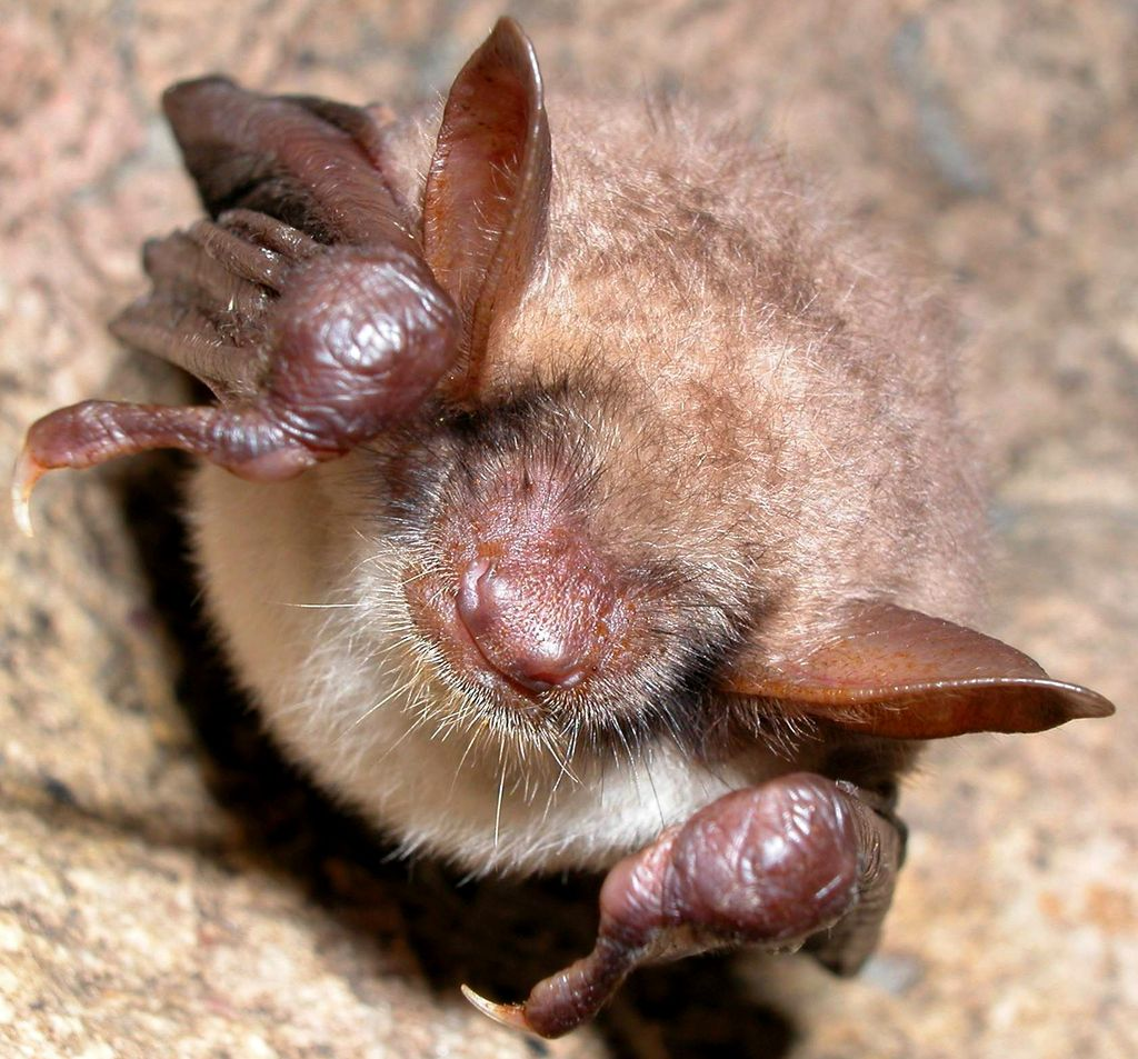 Greater mouse-eared bat